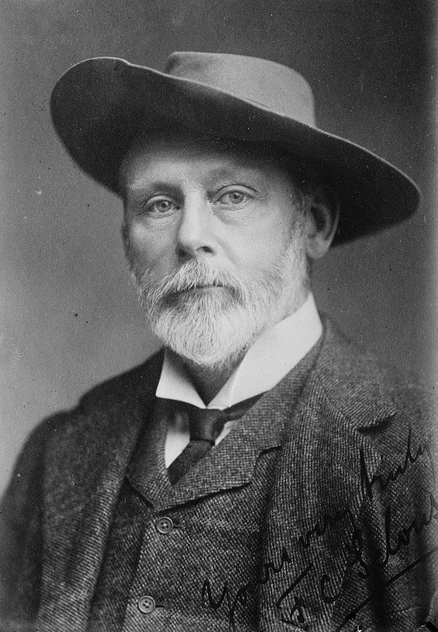 TITLE: Frederick Courtney Selous, portrait bust Library of Congress Prints and Photographs Division CALL NUMBER: LC-B2- 173-11[P&P] REPRODUCTION NUMBER: LC-DIG-ggbain-00983 (digital file from original neg.) MEDIUM: 1 negative : glass ; 5 x 7 in. or smaller. CREATED/PUBLISHED: [no date recorded on caption card] NOTES: Forms part of: George Grantham Bain Collection (Library of Congress). Title from unverified data provided by the Bain News Service on the negatives or caption cards. Temp. note: Batch one loaded. FORMAT: Glass negatives. REPOSITORY: Library of Congress Prints and Photographs Division Washington, D.C. 20540 USA DIGITAL ID: (digital file from original neg.) ggbain 00983 CARD #: ggb2004000983